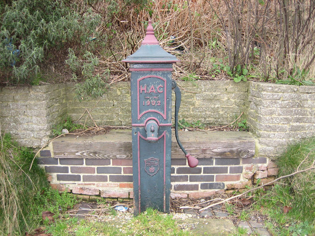 The Village Pump At the crossroads in Great Cubley is the village pump. This is a 'Bamfords Frost Protected Lift Pump' and marked HAC 1902.